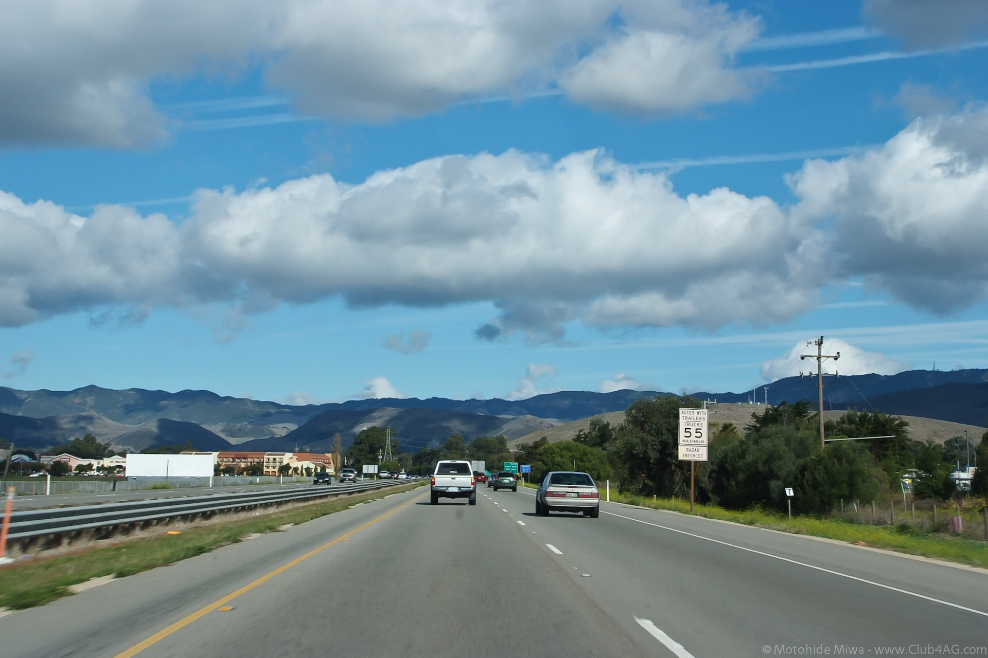 San Louis Obispo, CA - Highway 101